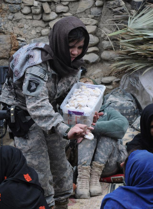 Photo Credit: Photo by U.S. Army Spc. Tobey White, Task Force Duke Public Affairs Office. U.S. Navy Petty Officer Second Class (Culinary Specialist) Francine Henry, with the Khowst Provincial ReconstructionTeam, gives cookies she baked to local Afghan women at a women's shura held in Jaji Maidan in Khowst Province, Afghanistan, Thursday, Feb. 10.